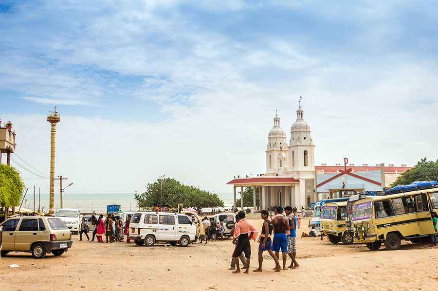 Antonyar Church, Uvari